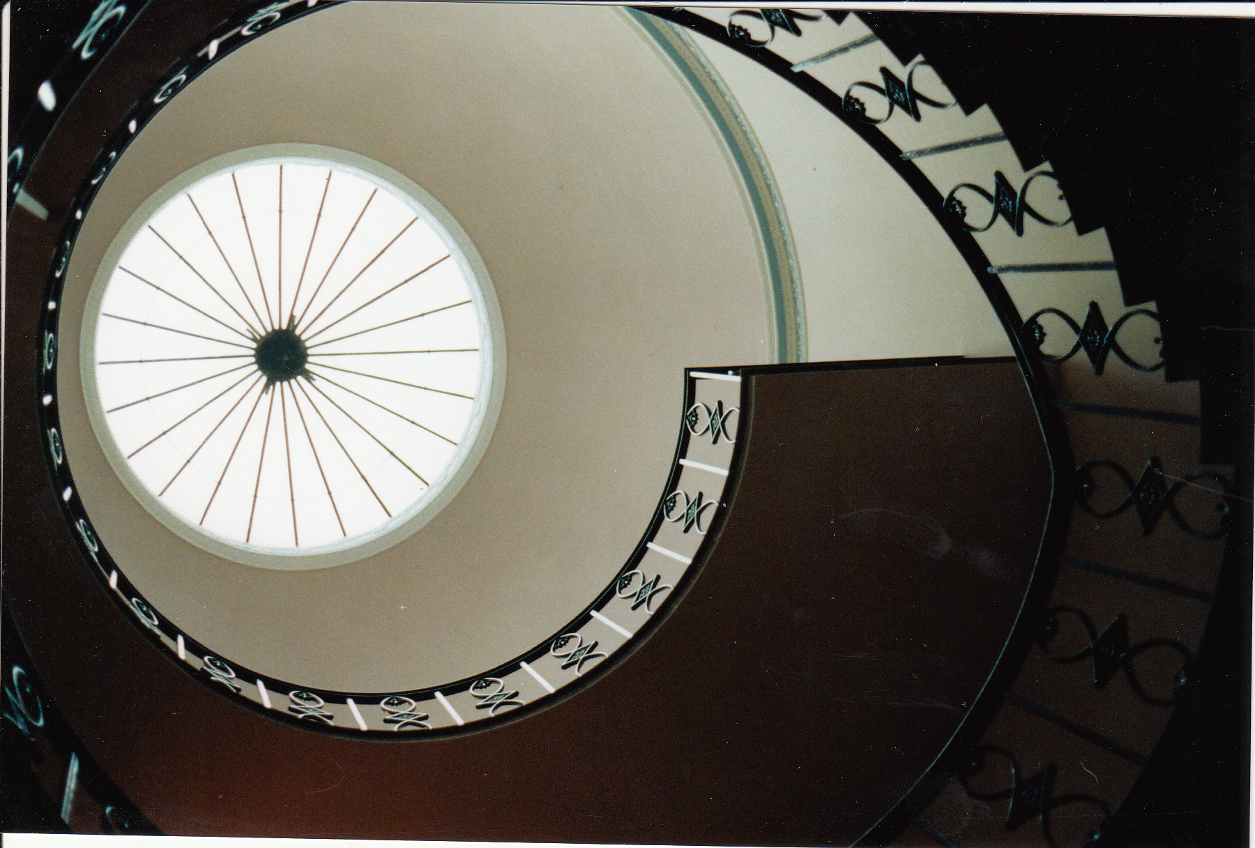 Photograph of the spiral staircase at the centre of the Robert Adam designed Pitfour Castle, St Madoes, Perthshire, Scotland. The cartoons are just visible at the top of the stairwell.